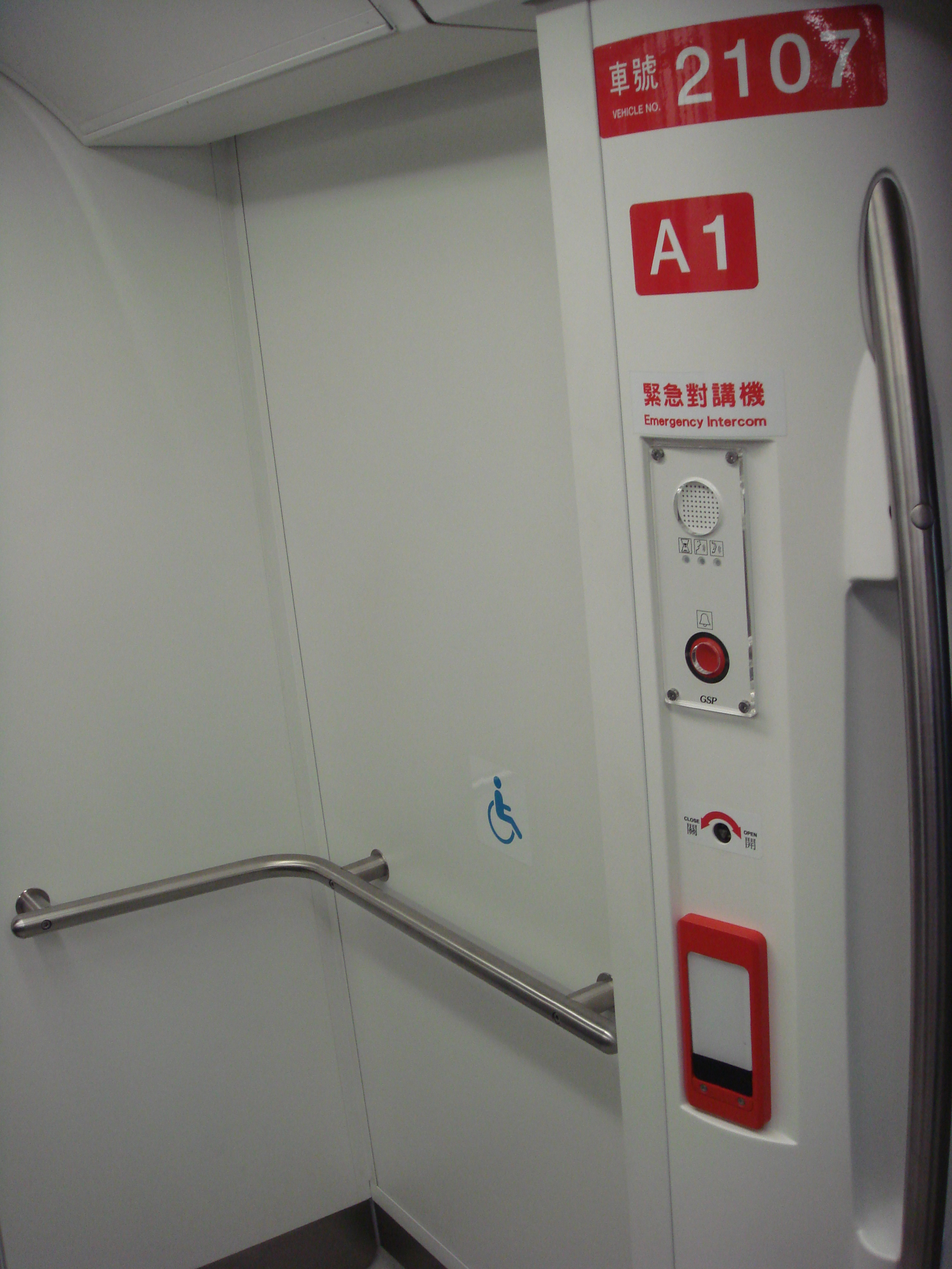 輪椅區 Stations of Kaohsiung Metro Red Line